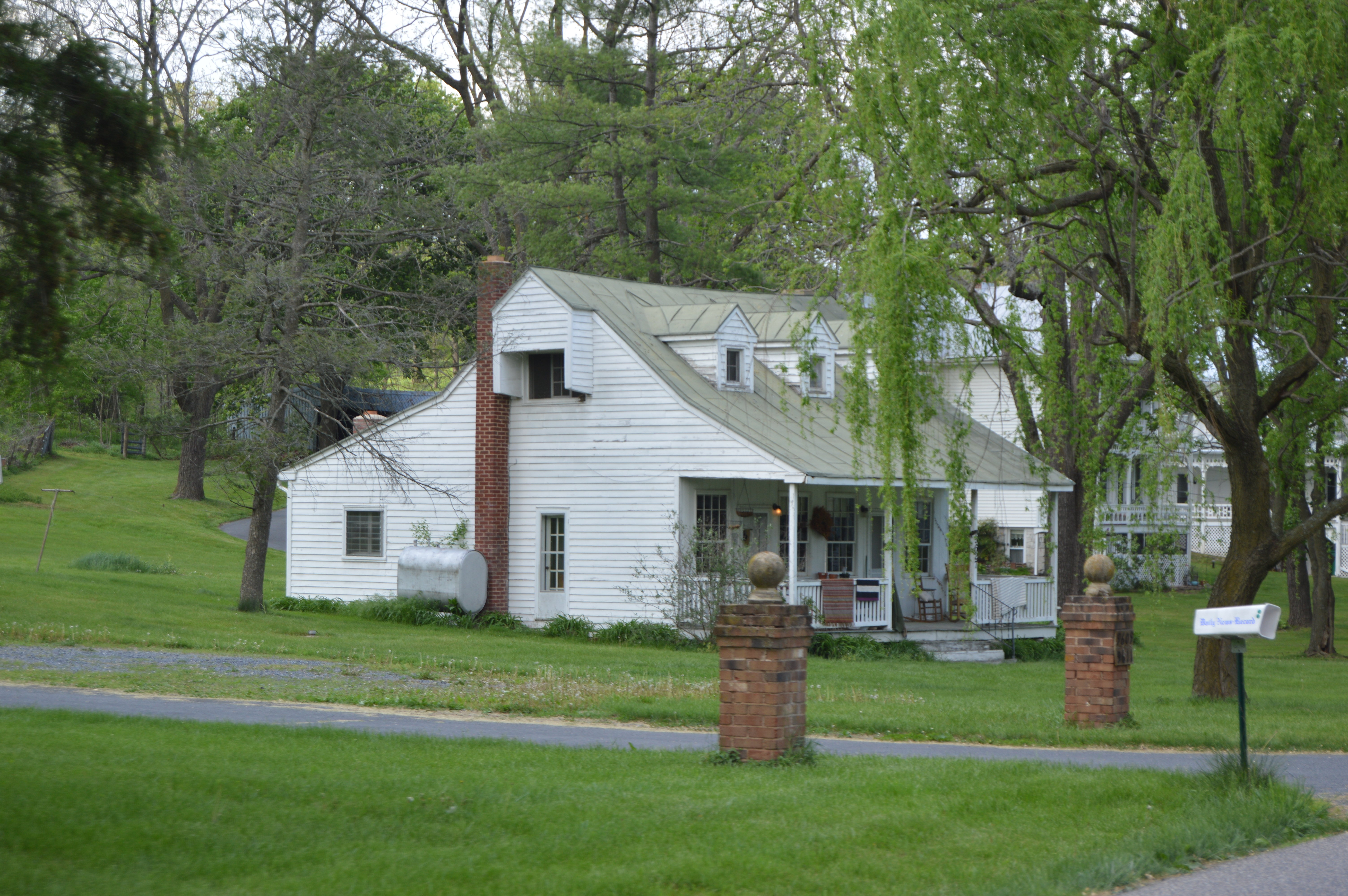 Front and western side of the Joseph Funk House, located on Singers Glen Road in Singers Glen, Virginia, United States. Built in 1810, it is listed on the National Register of Historic Places, and it is part of a Register-listed historic district, the Singers Glen Historic District.